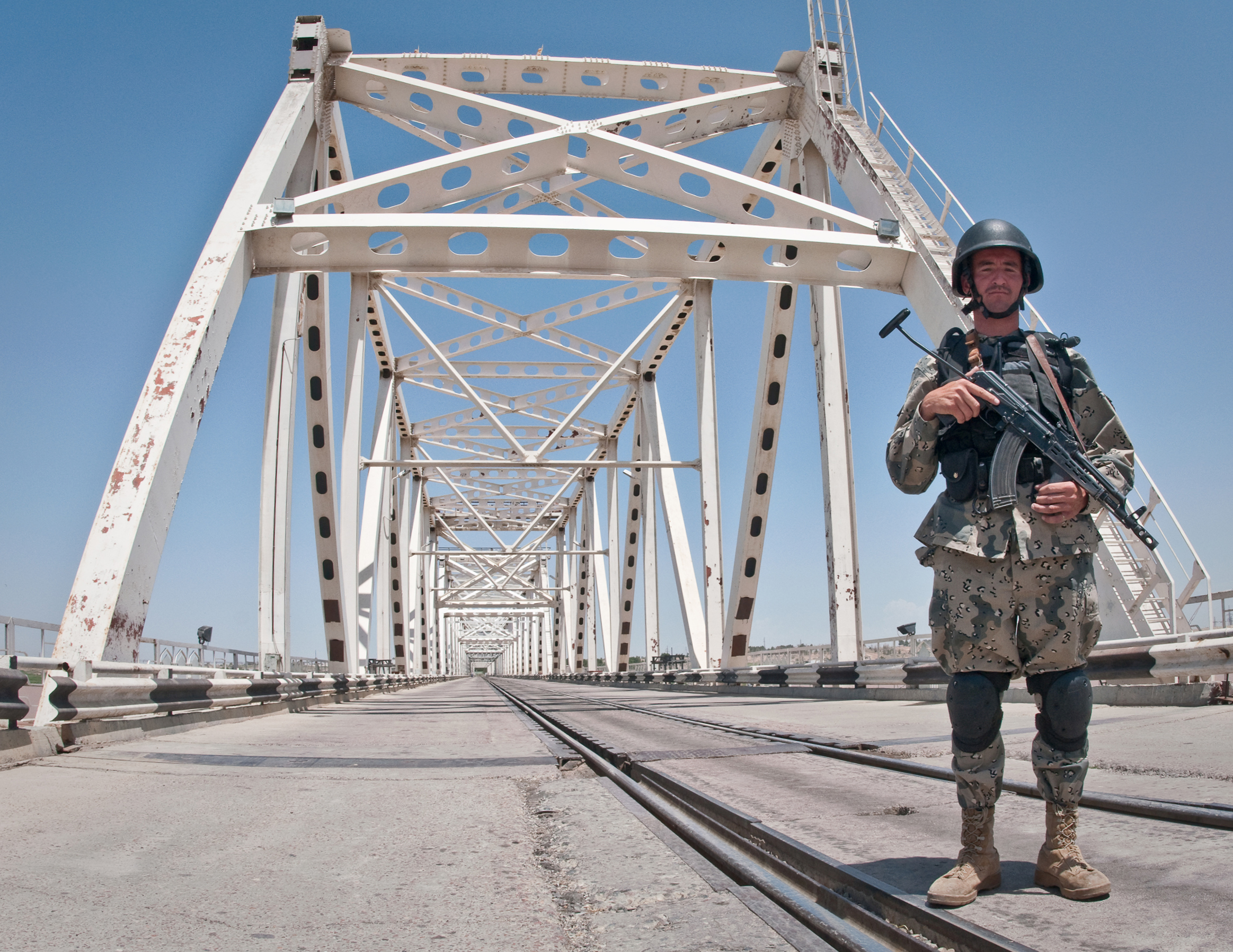 BALKH PROVINCE, Afghanistan (May 27, 2010) —An Afghan Border Policeman stands watch on the Freedom Bridge crossing the Amu Darya River. On 15th February, 1989 the last Soviet troops to withdraw from Afghanistan crossed the bridge into the, then, Uzbek Soviet Socialist Republic. The bridge now carries rail and vehicular traffic and is the only border crossing between Afghanistan and Uzbekistan. (U.S. Navy photo by Petty Officer 1st Class Mark O’Donald)